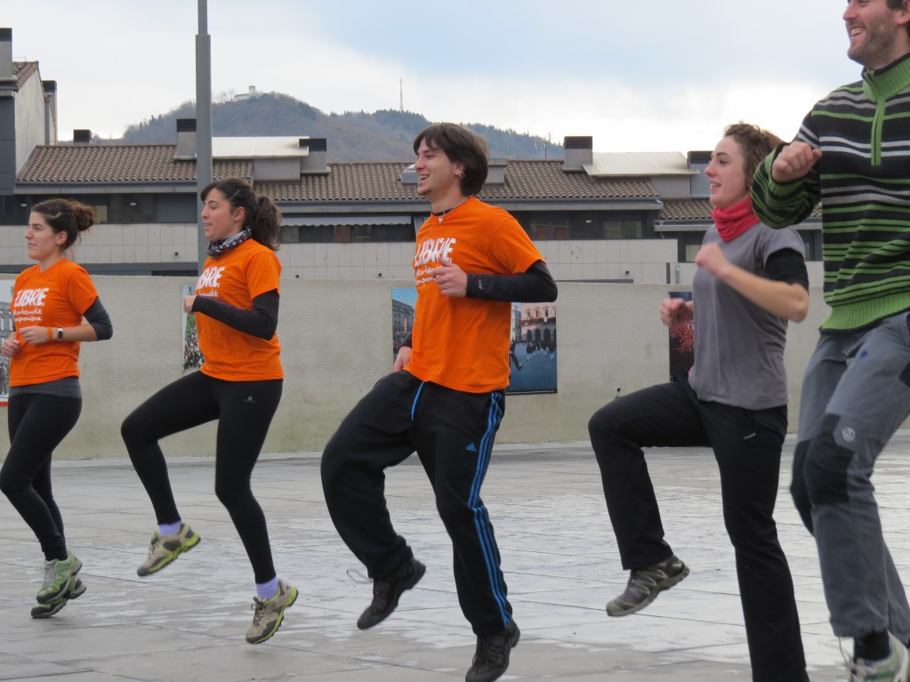 Participating in aerobic exercises decreases hyperglycemia.